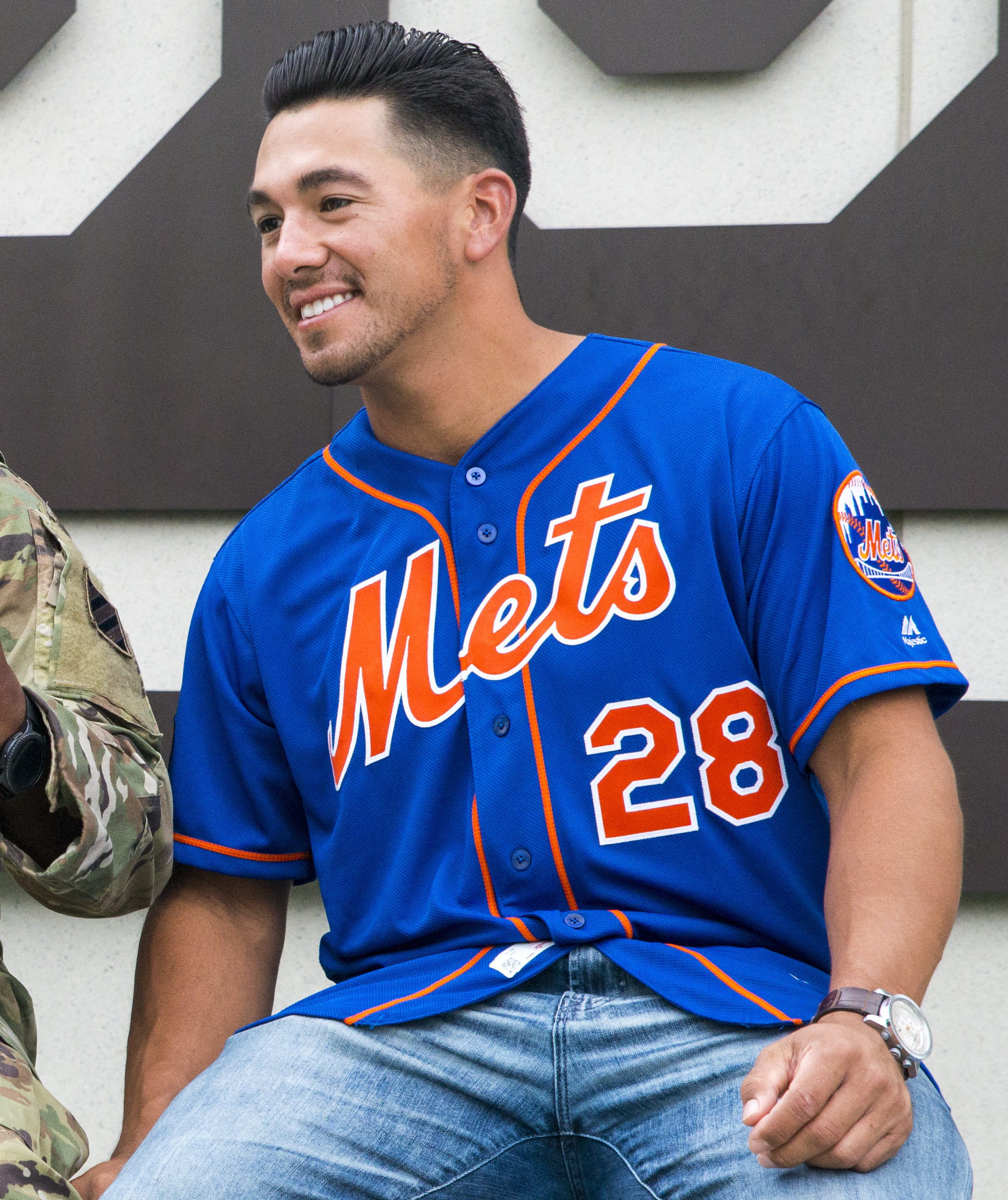 Members of the New York Mets posed with an Army Soldier in front of the United Service Organizations (USO) Warrior and Family Center at Naval Support Activity Bethesda, July 31. The New York Mets visit to the USO was open to all active duty personnel and their dependents. (U.S. Navy photo by Mass Communication Specialist 3rd Class Julio Martinez Martinez)